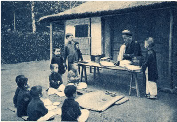 Teaching activity before 1945